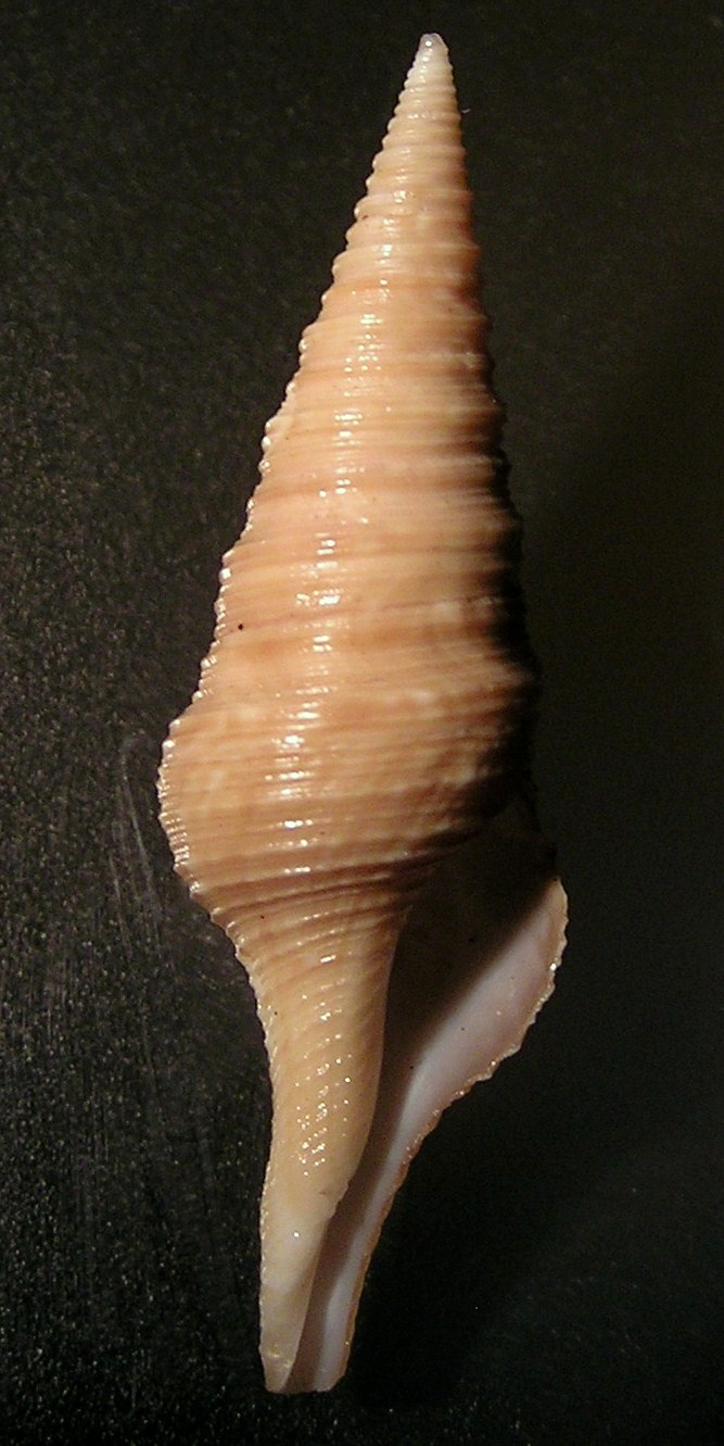 Turris omnipurpurata Vera-Pelaez, Vega-Luz & Lozano-Francisco, 2000, a turrid snail from the family Turridae; South China Sea